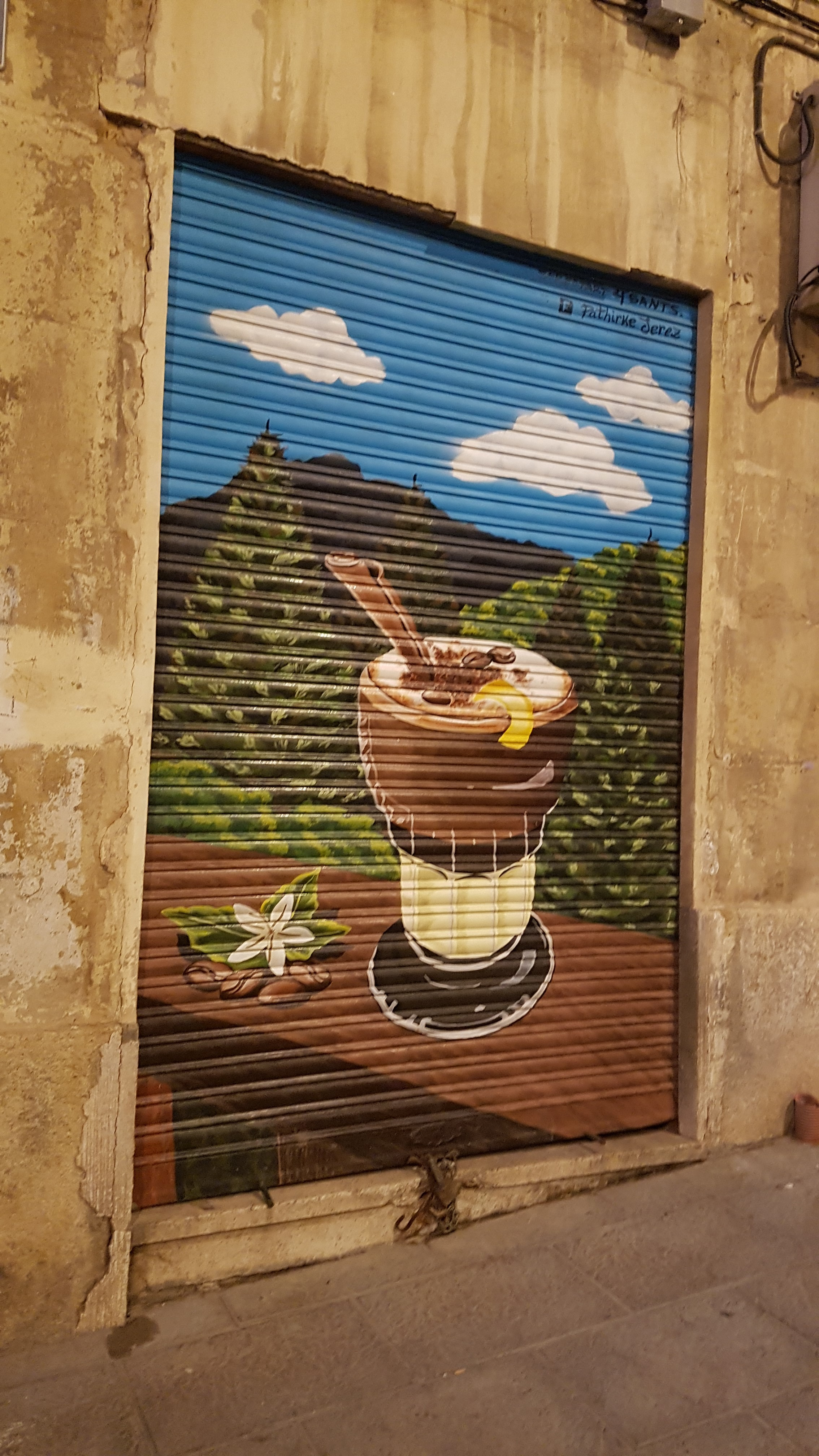 Graffiti promoted in 2019 by the City Council of Cartagena in a roller shutter of Calle de Palas, work of the artist Pathirke Jerez. It shows a cup served with Asiático, a typical coffee recipe from the city.